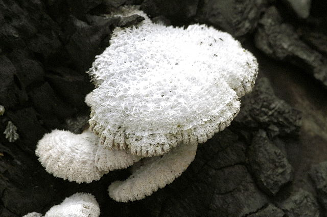 Schizophyllum commune from Commanster, Belgium. The determination of the species shown in this picture has been verified.